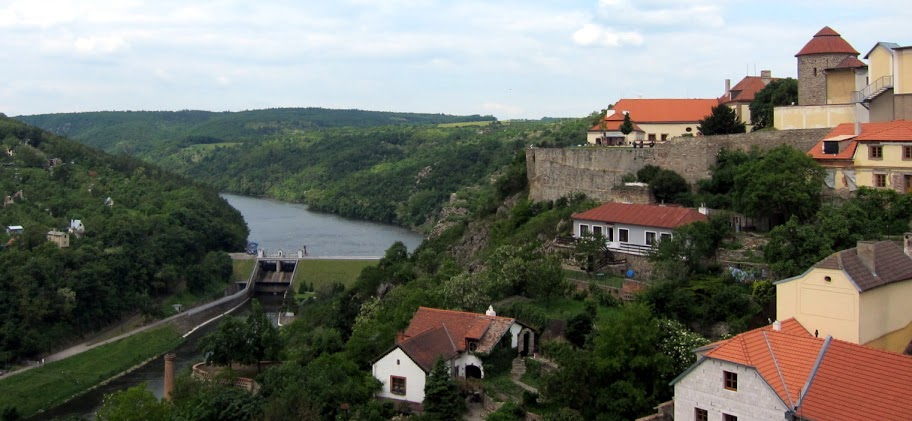 Panorama view of Znojmo Reservoir and Castle